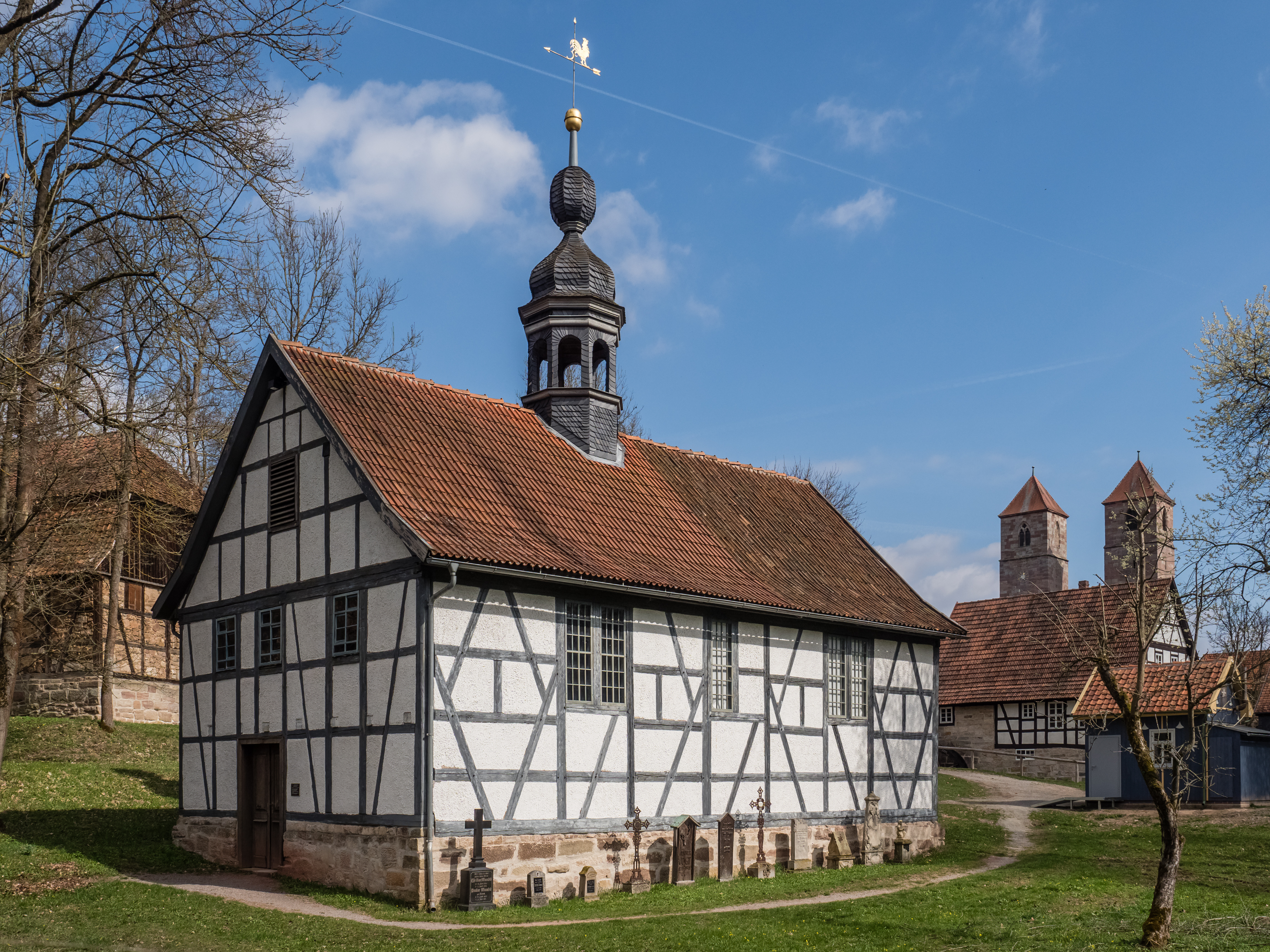 The "Totenhofkapelle", a former cemetery chapel, now in the open air museum Kloster Veßra